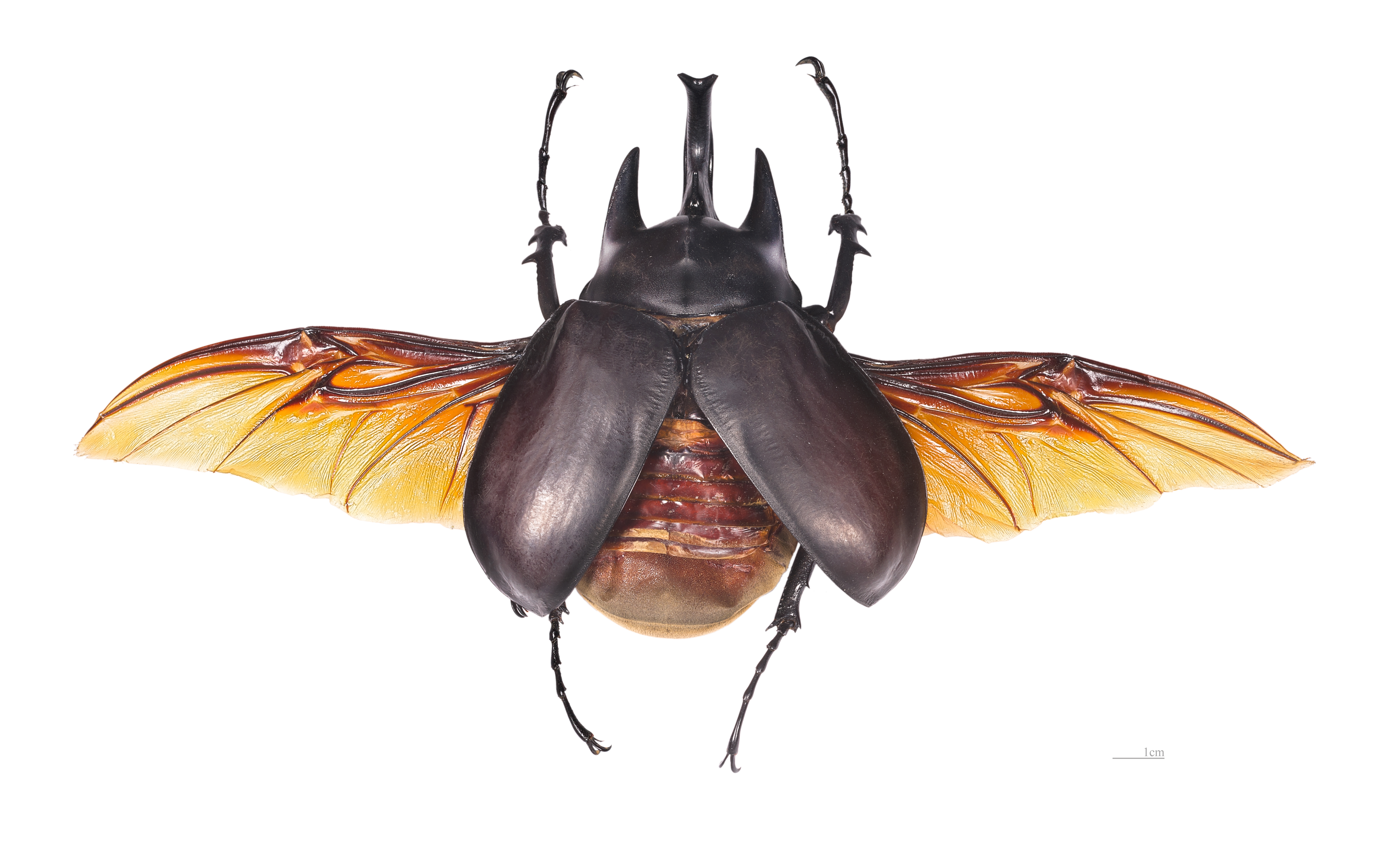 ♂ - Flight position Locality : Cacao, Mont Table, French Guiana.